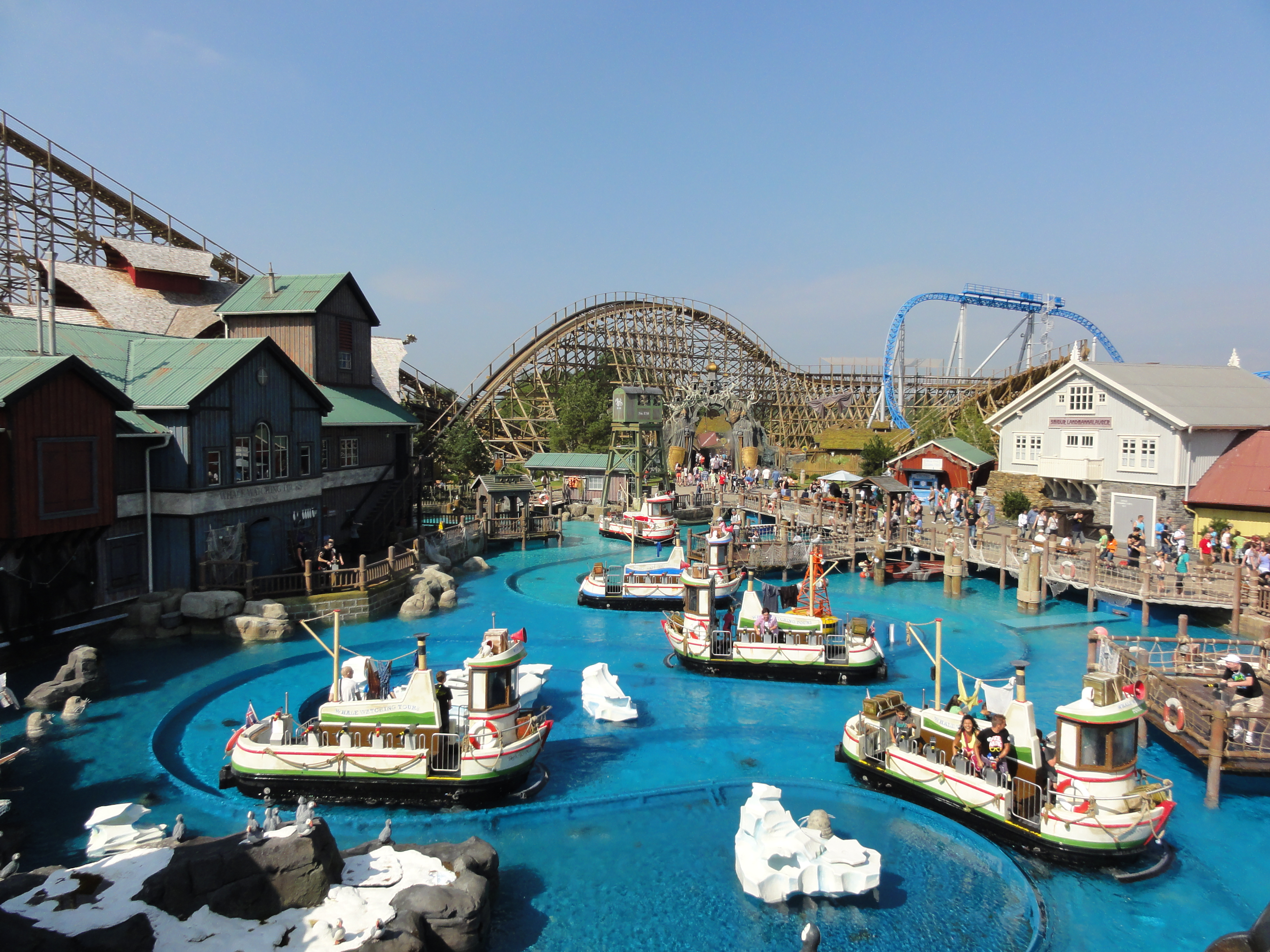 Whale Adventures Splash Tours & 'Wodan Timbur Coaster, Europa-Park, Rust, Baden-Württemberg, Germany.